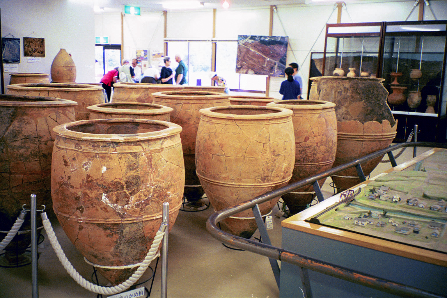 Burial Jars. Yoshinogari Yayoi Village Large numbers of burial jars were recovered from a mound on site. Yayoi burials were situated on the periphery of the residential area, unlike Jomon burials which were sited within the residential area itself. The Yayoi custom of jar burials dates to ca. 100 BC - 100 AD. Like the earlier dolmen and cist burials, this culture was imported from Korea.